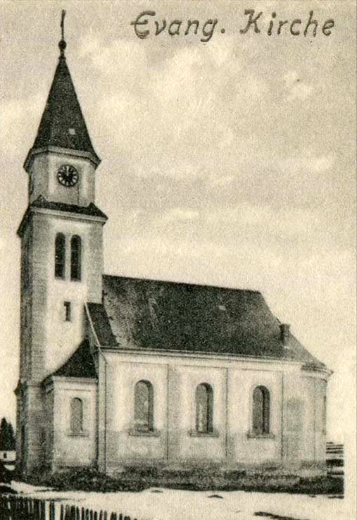 Lutheran church in Křišťanovice (Christdorf), 1924